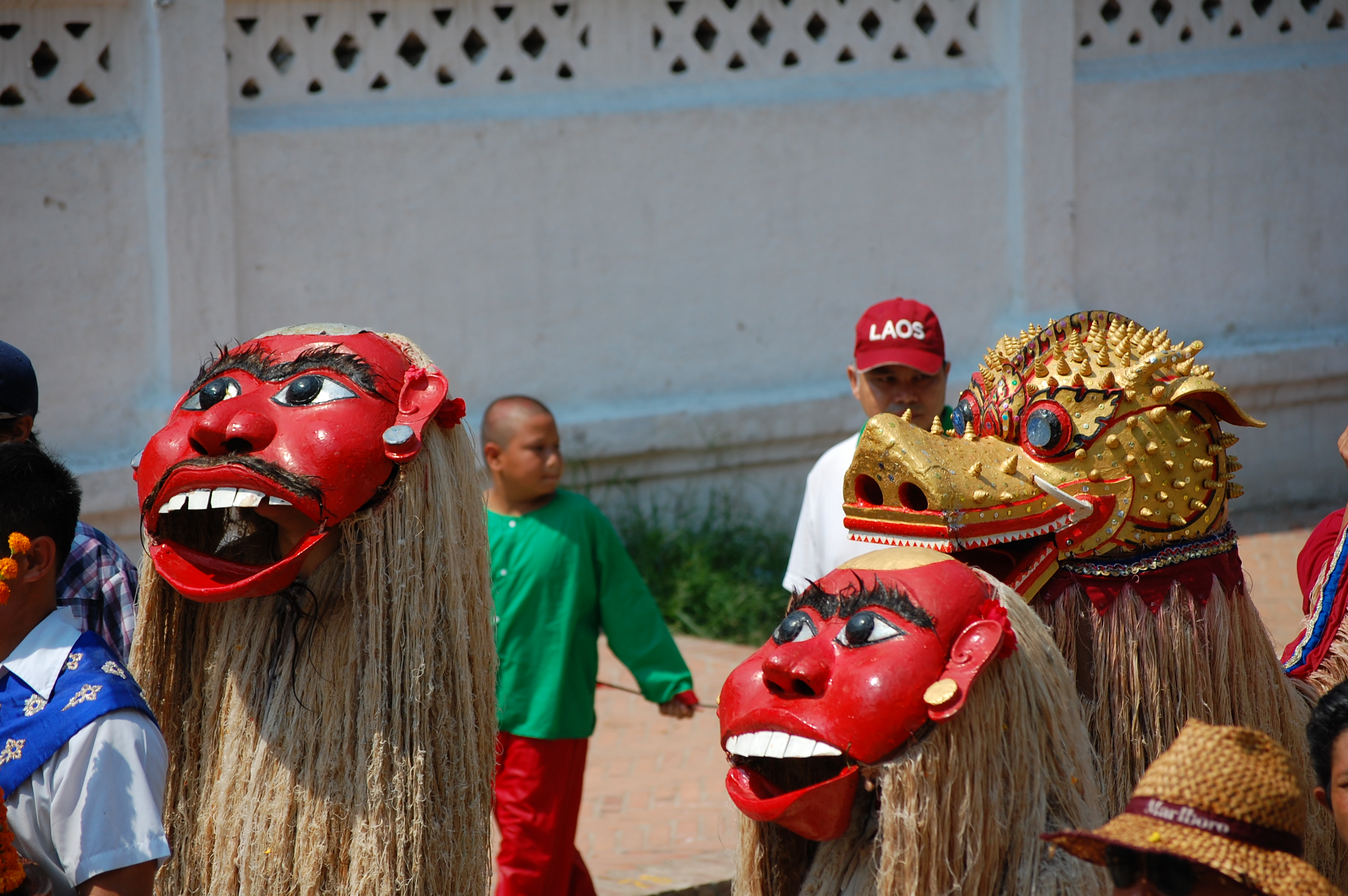 Children wearing masks during Lao New Year.